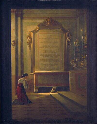 Tombstone of Marie Clotilde of France at the Santa Caterina a Chiaia, Naples